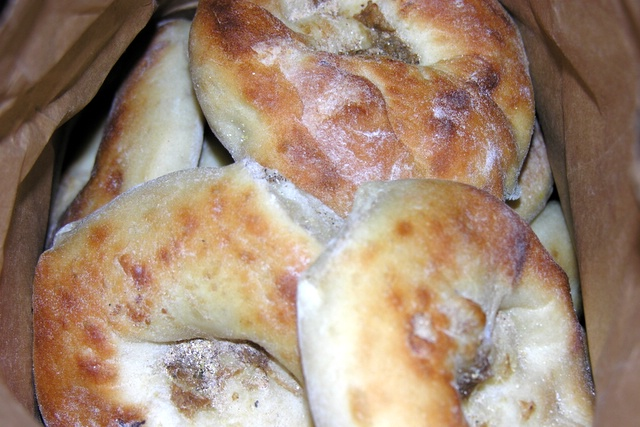 Bialies